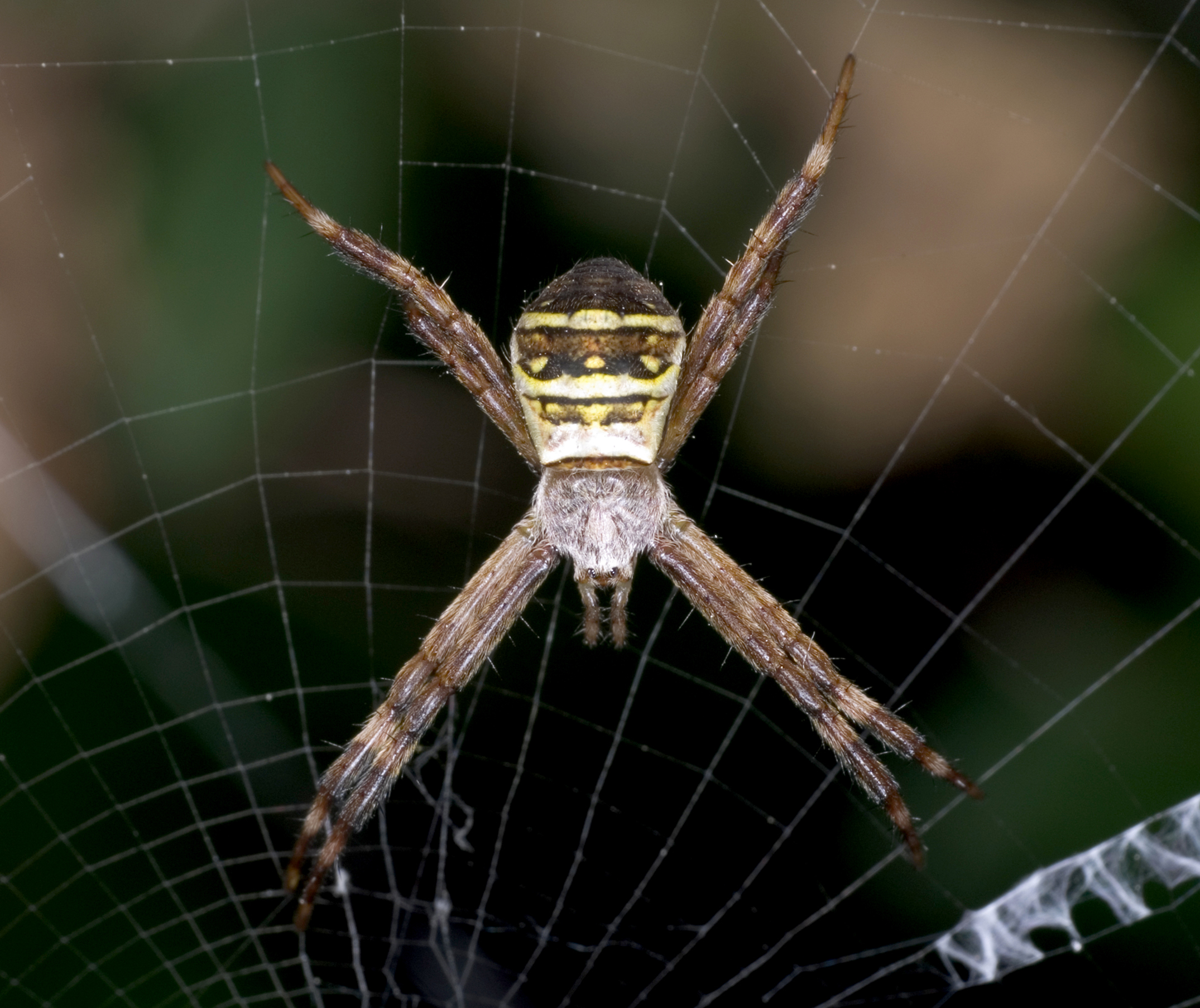 Argiope minuta